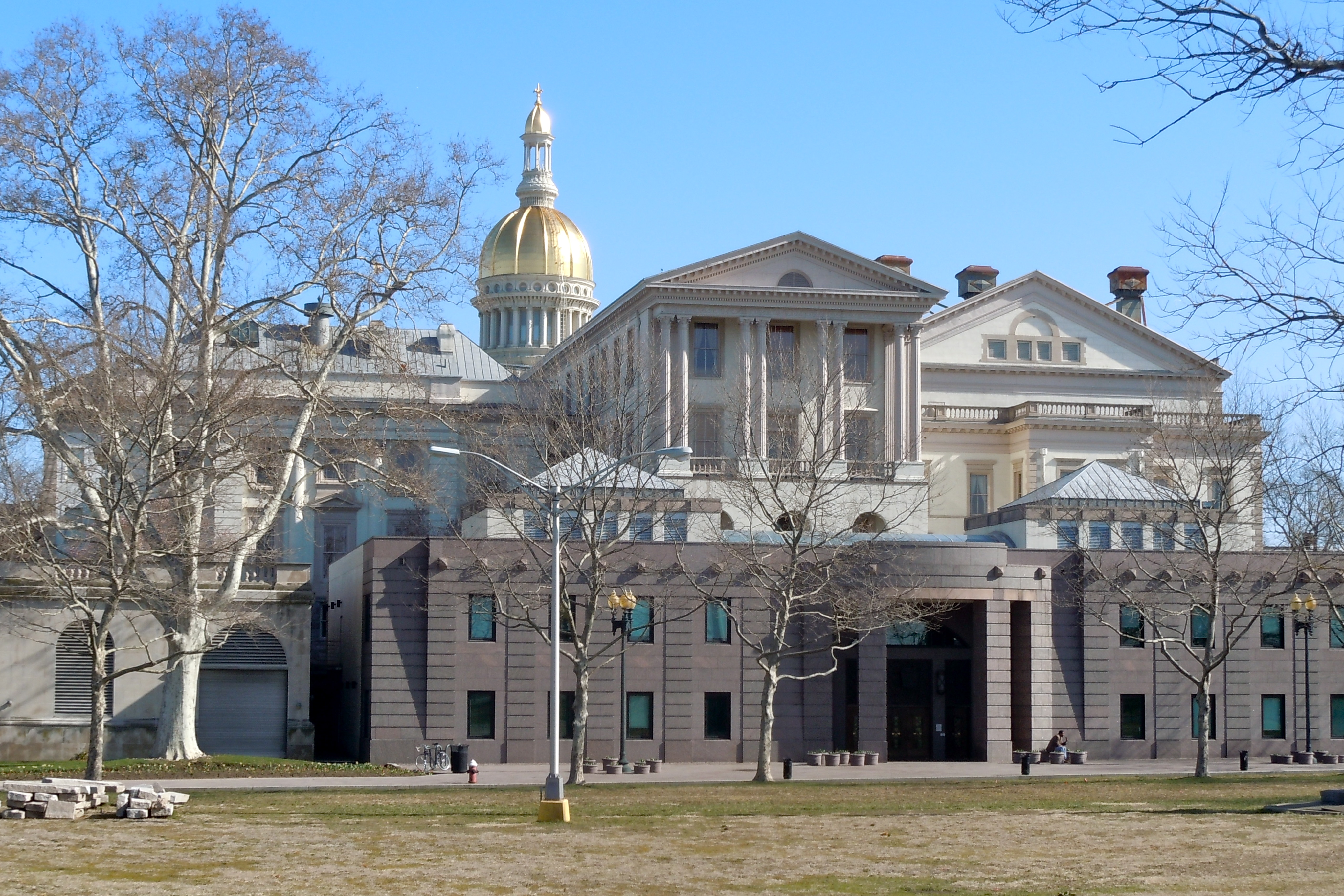 New Jersey State House, "capitol" of the State of New Jersey. Taken from the west. In the State House District listed on the NRHP since August 27, 1976. The Historic district is roughly bounded by Capitol Plaza, Willow, State and Lafayette Sts., Trenton, New Jersey